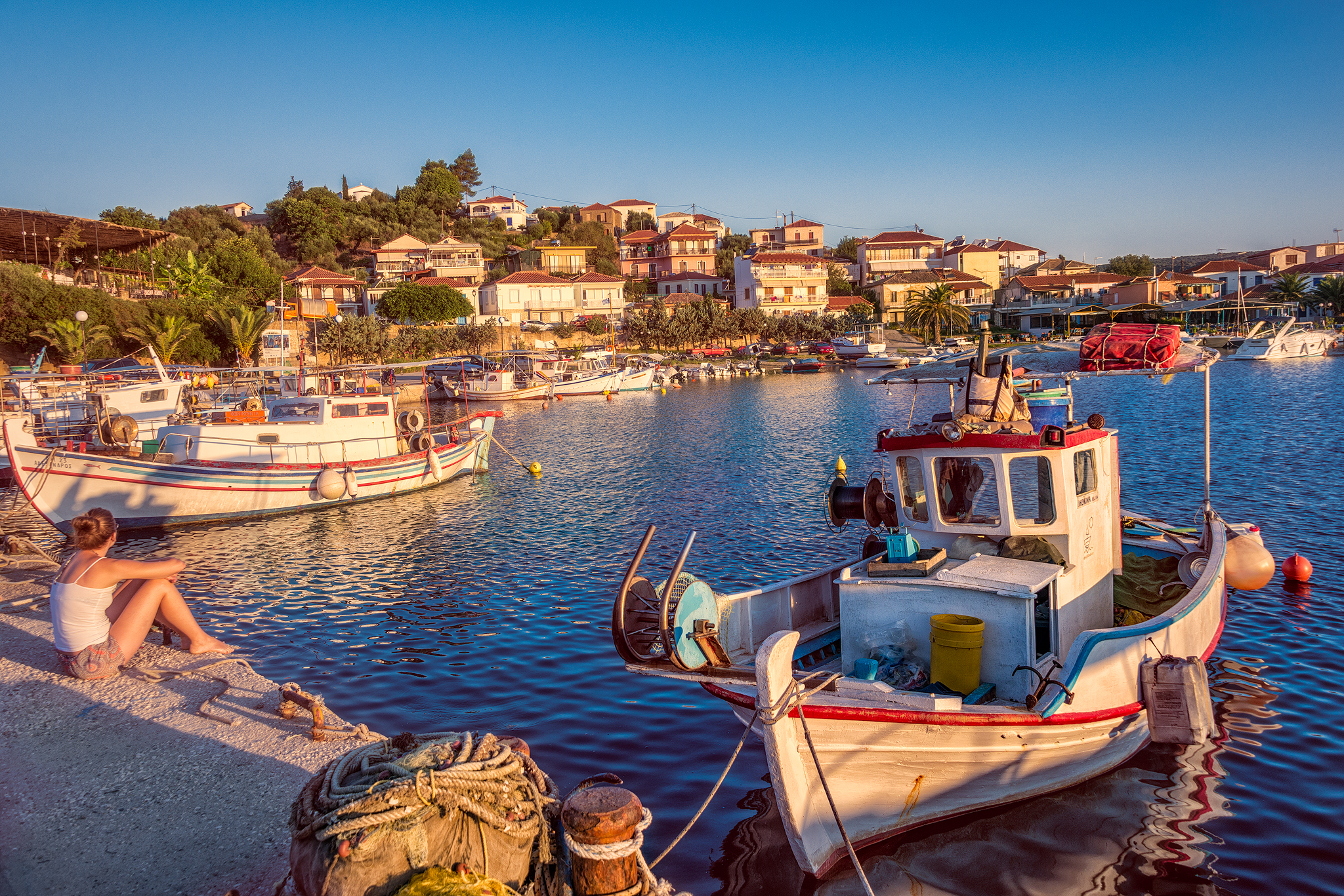 This is a photography of Natura 2000 protected area with ID GR2550003